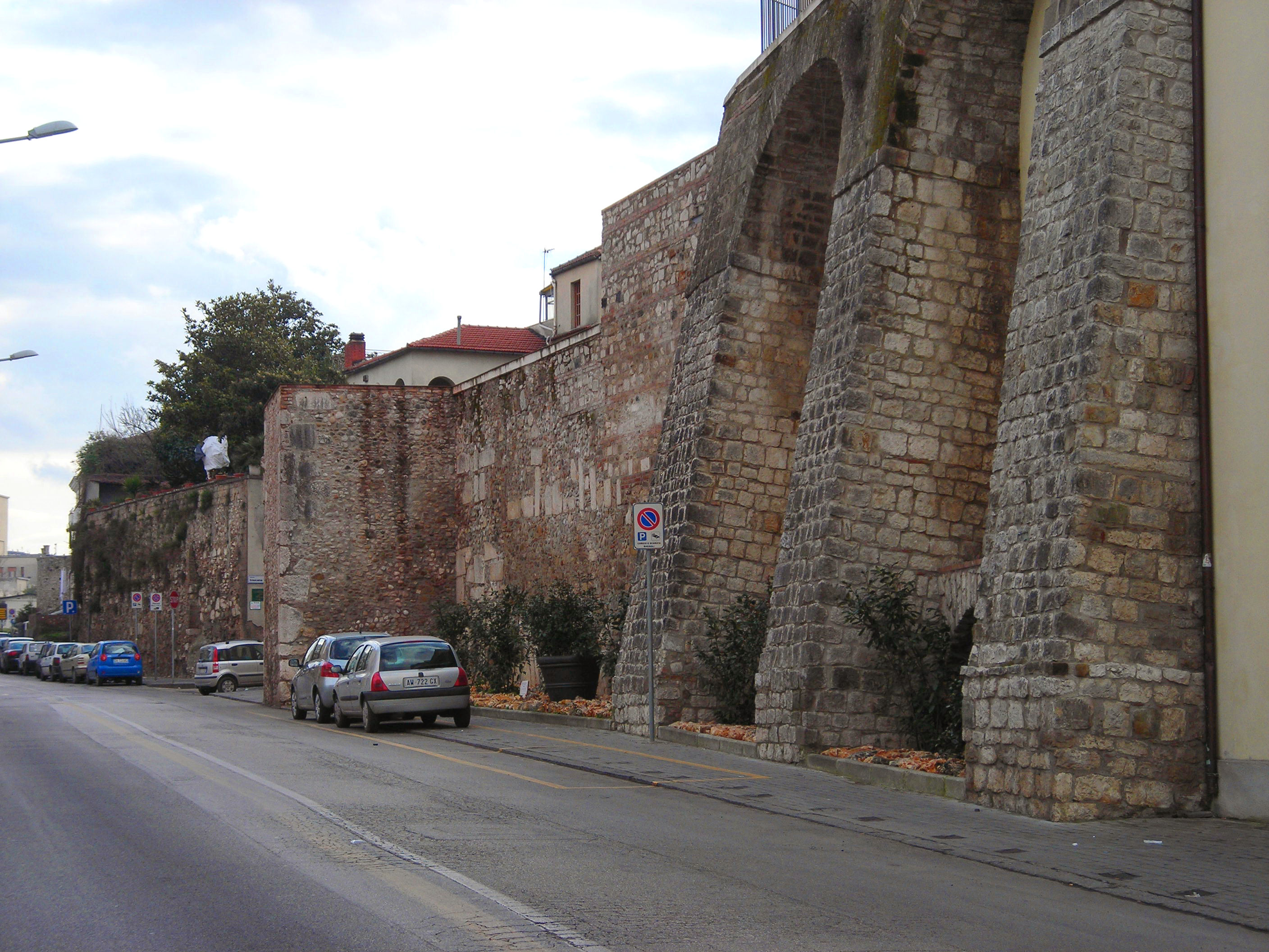 Lombard walls of Benevento, Italy